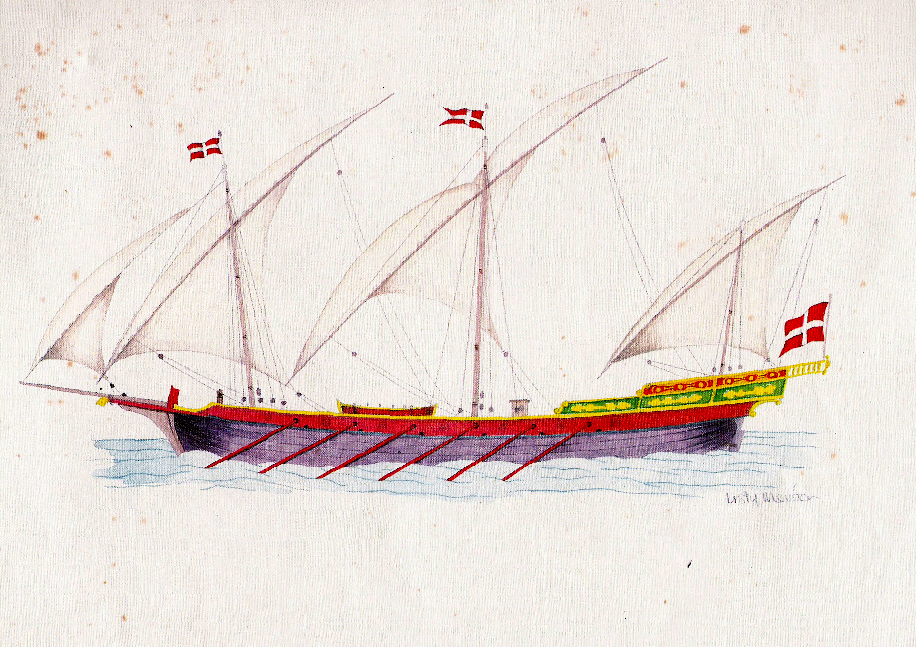 Own Photo of a picture, that's reside at the wall of my livingroom; taken in October 2006; source: ERWEH